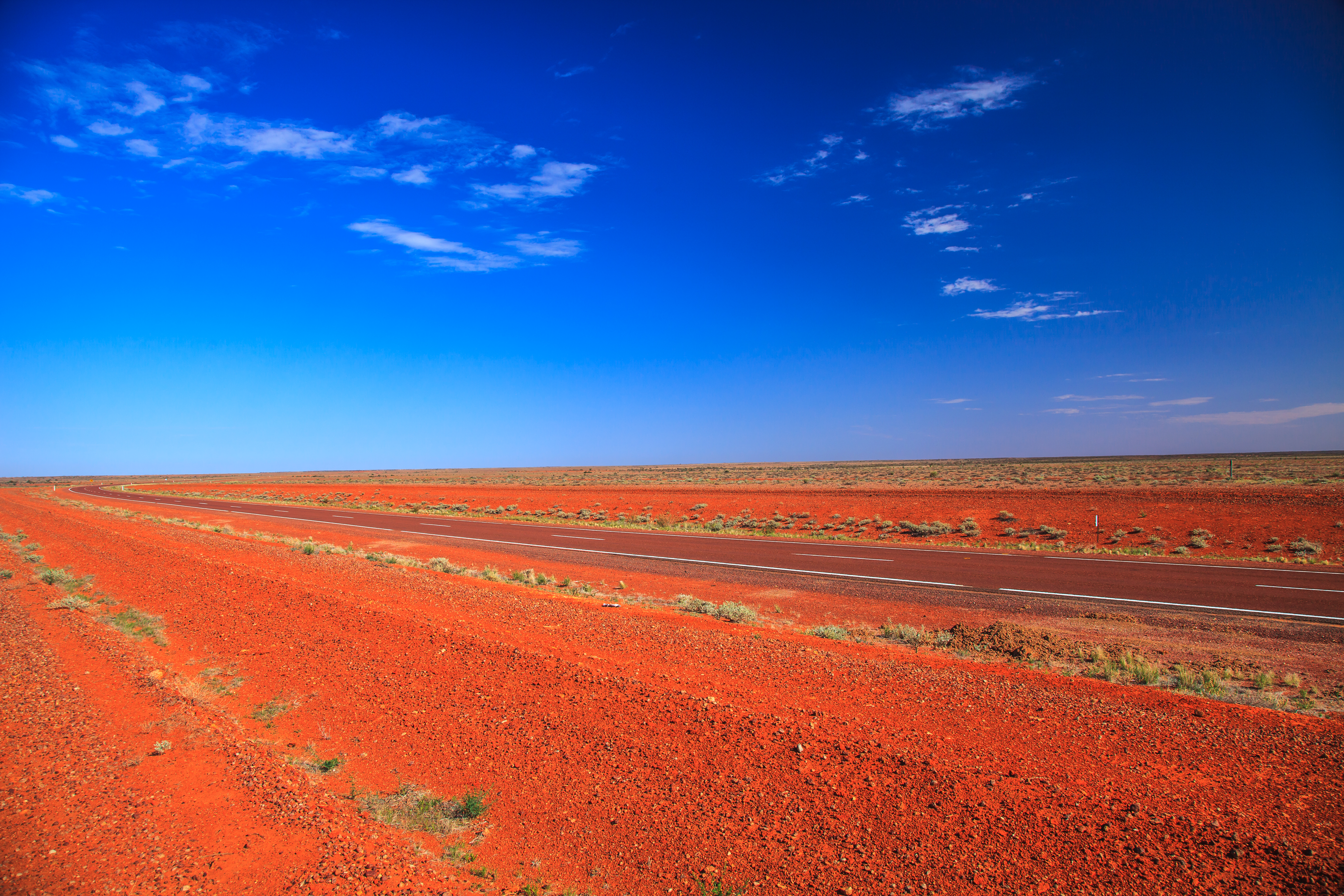 sunset along Hwy A87 N into the Red Centre...